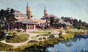 Kōshien Hotel by Arata Endo